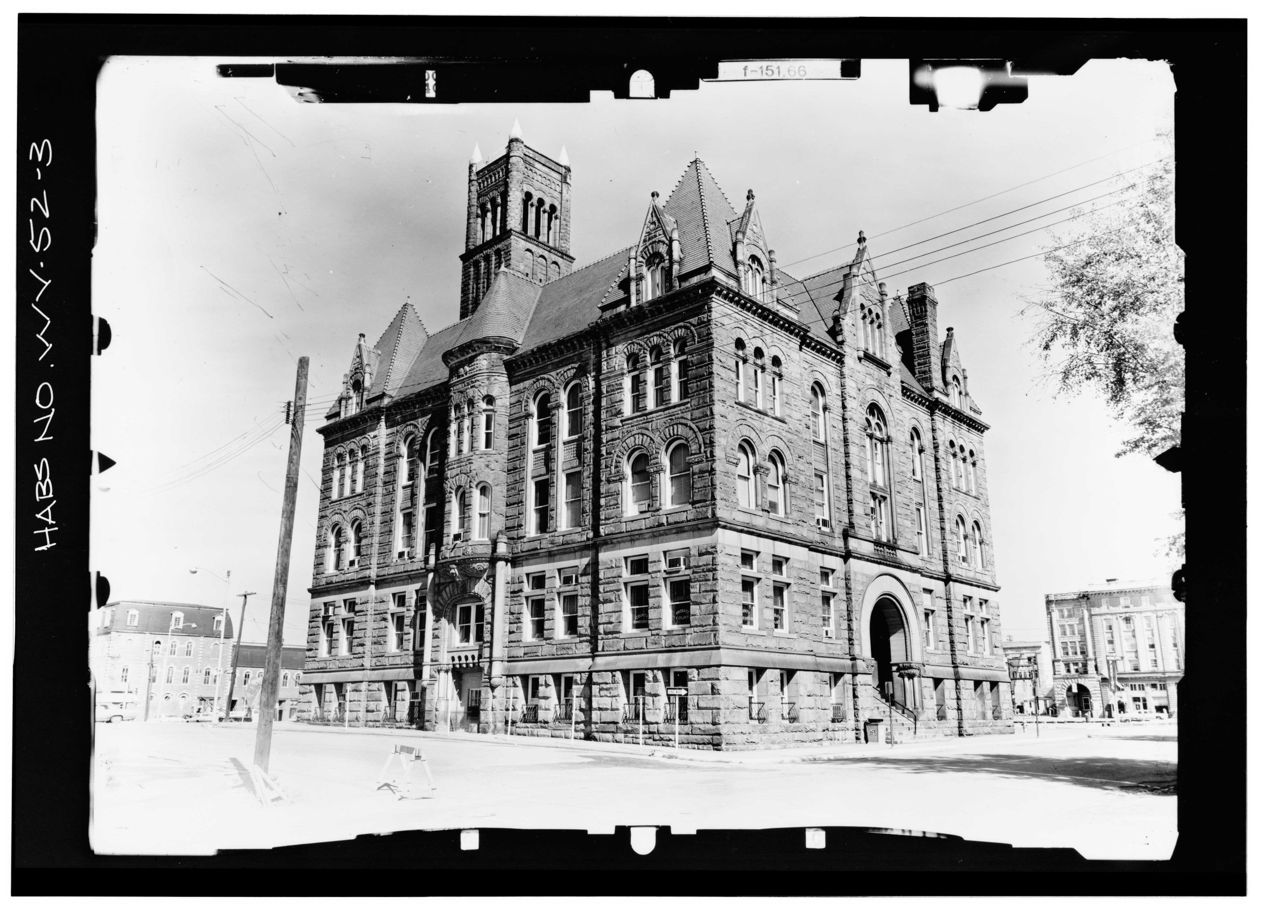 Wood County Courthouse, Parkersburg, West Virginia, USA. This photograph is from the Historic American Buildings Survey (HABS), Library of Congress, USA. HABS Reproduction Number: HABS WVA,54-PARK,4.